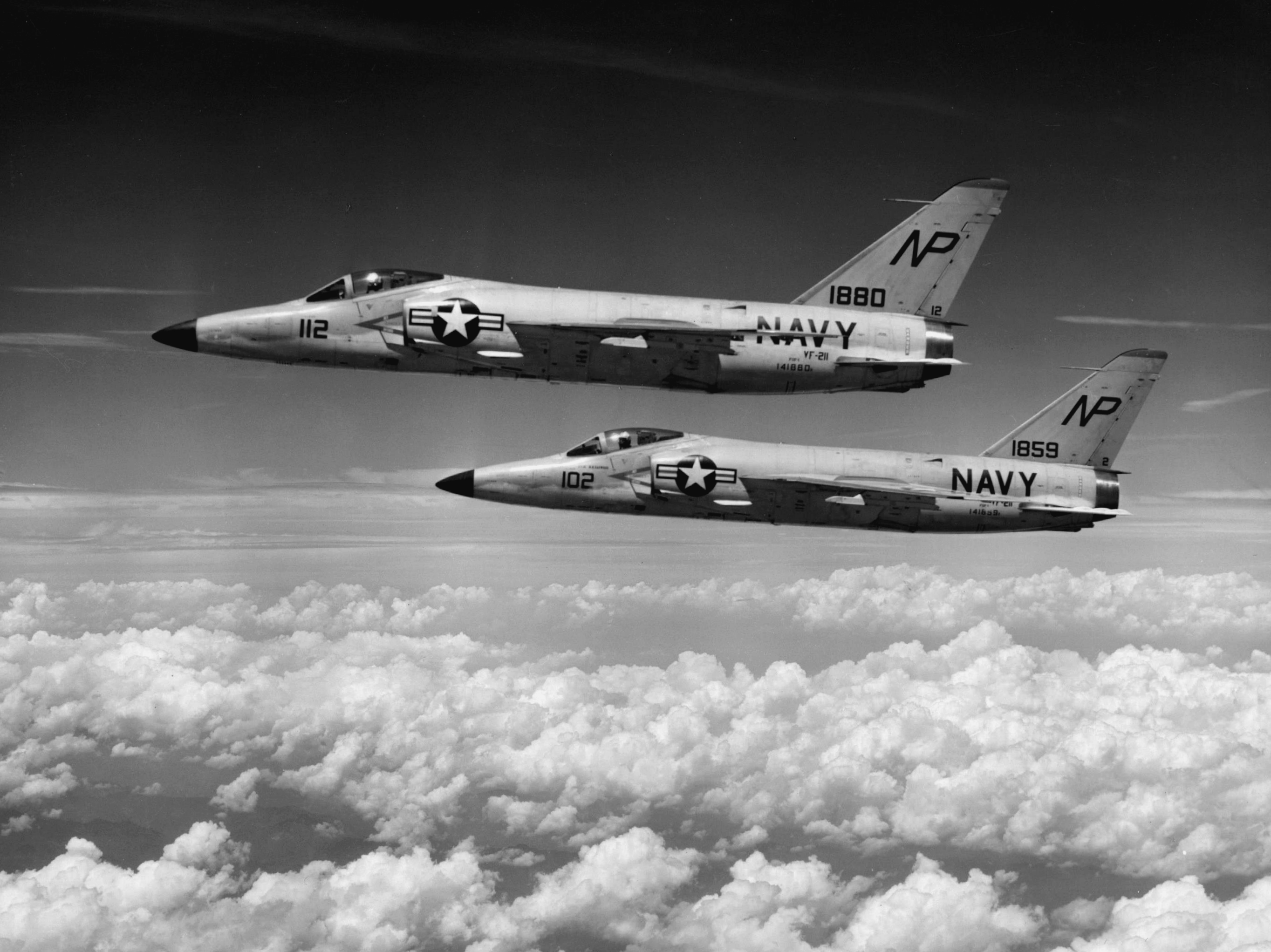 Two U.S. Navy Grumman F11F-1 Tiger's (BuNo 141859, 141880) from to Fighter Squadron 211 (VF-211) "Checkmates" in flight. VF-211 was assigned to Carrier Air Group 21 (CVG-21) aboard the aircraft carrier USS Lexington (CVA-16) for a deploment to the Western Pacific from 25 April to 3 December 1959.